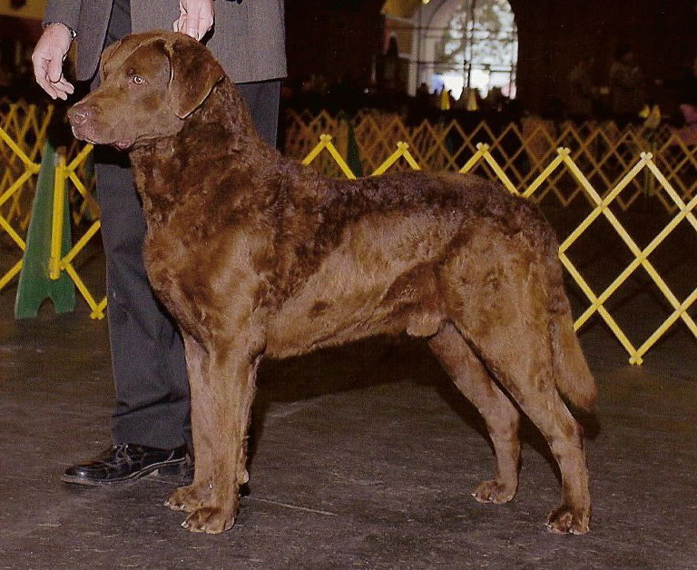 Male, Chesapeake Bay Retriever competing in the conformation ring